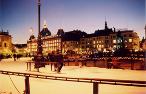 Kongens Nytorv, Copenhagen